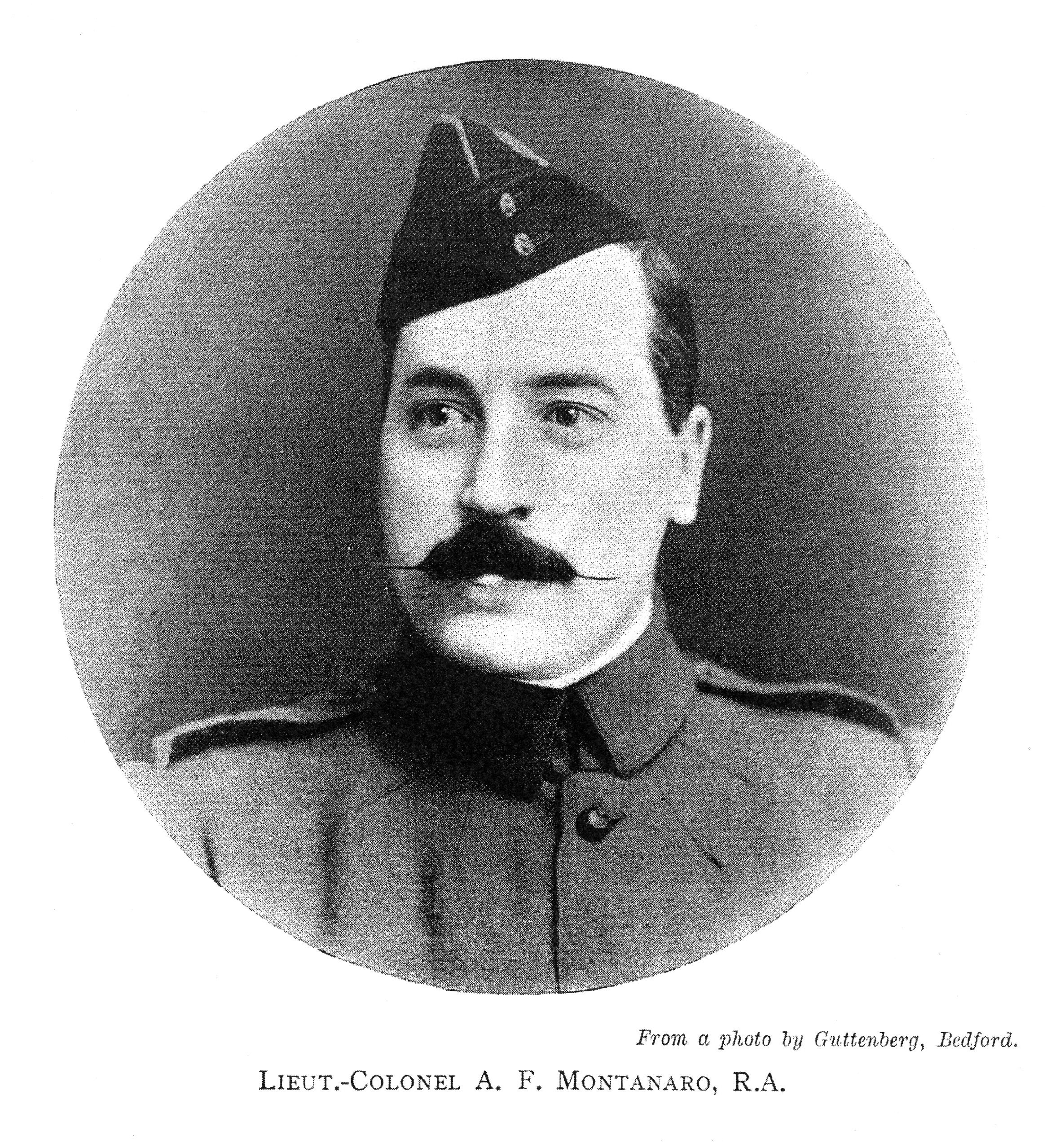 Lieutenant-Colonel Arthur Forbes Montanaro (1862-1814), Royal Artillery.